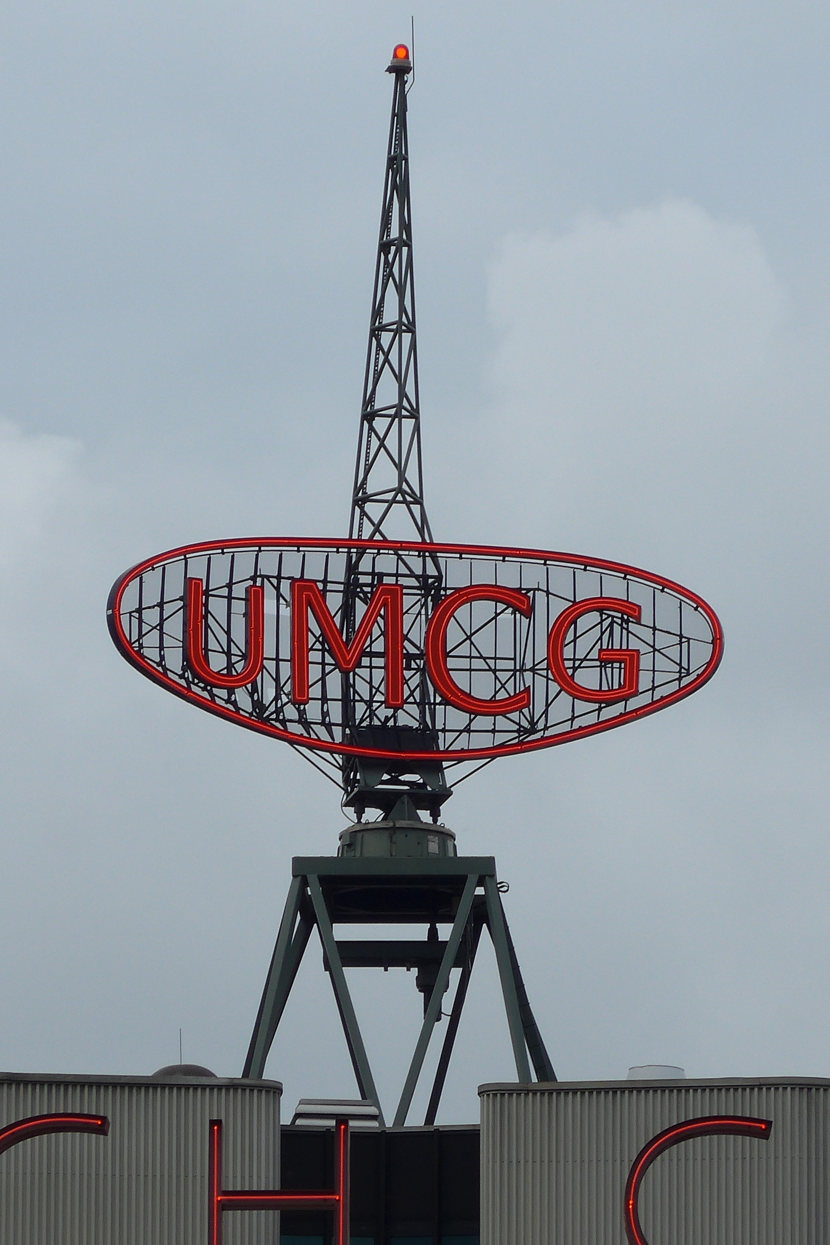 Object on the roof of the UMCG in the Dutch city of Groningen.